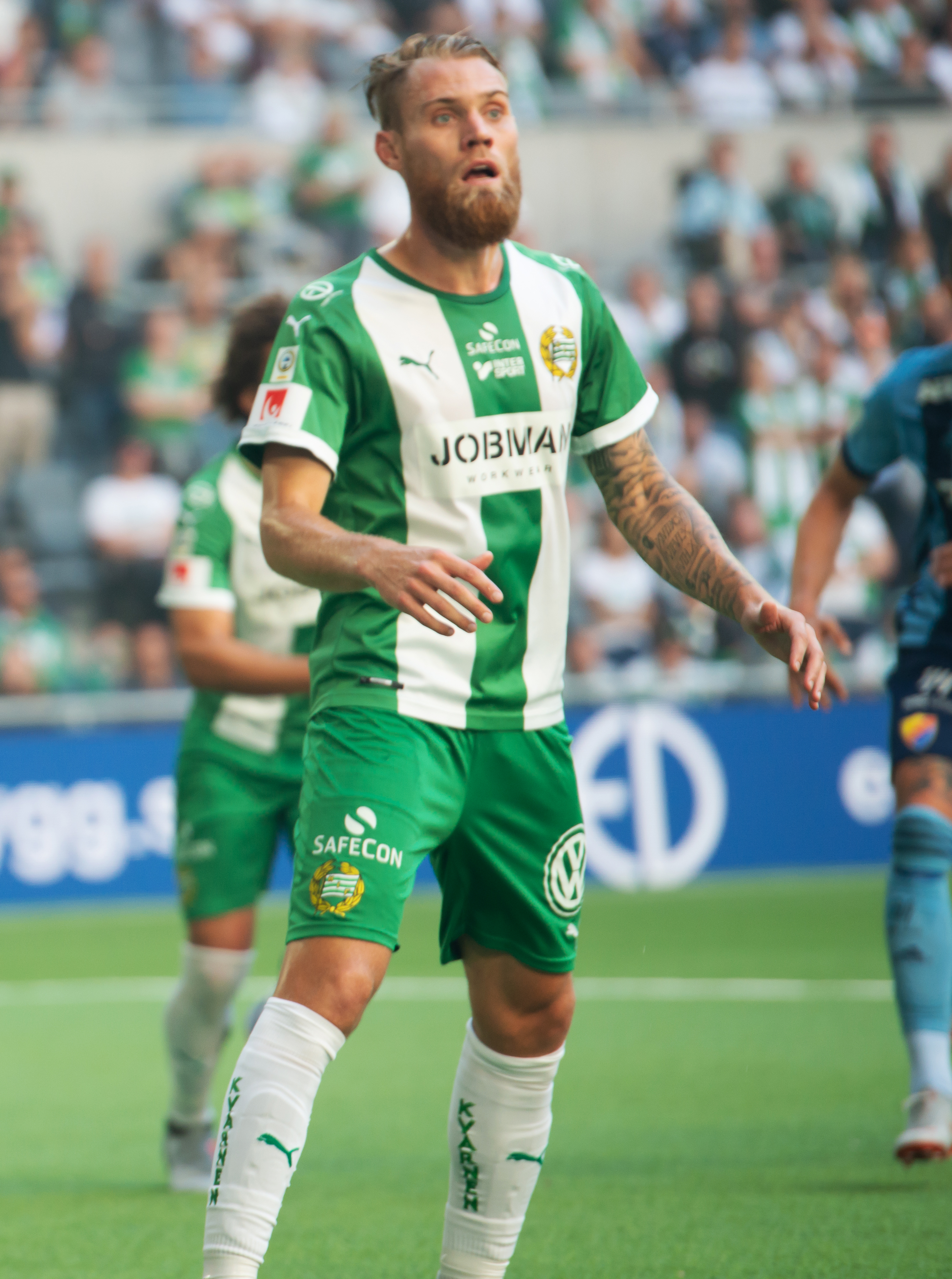 David Fällman playing for Hammarby.